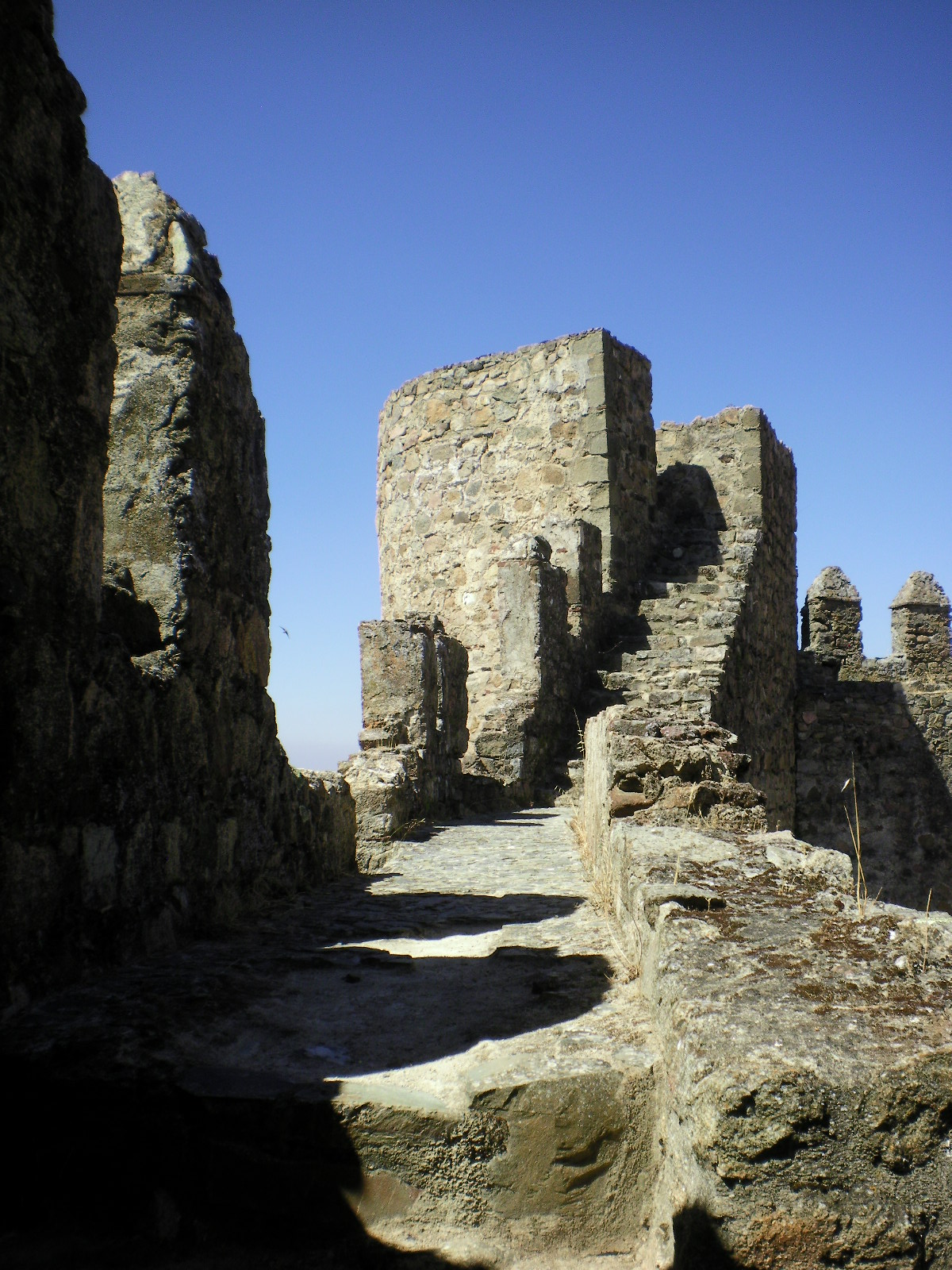 one of the castle towers